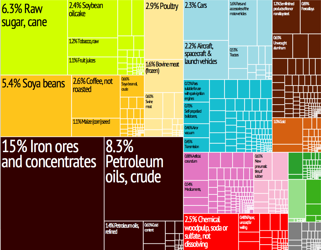 Brazil Export Treemap from MIT Harvard Economic Observatory